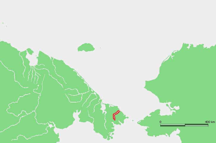 location map